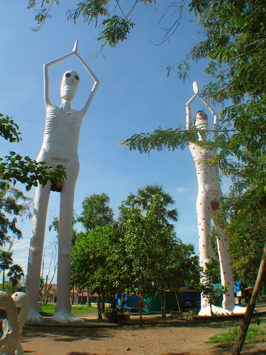 Statues of Hungry Ghosts (Preta), Wat Phai Rong Wua, Suphanburi province, Thailand.